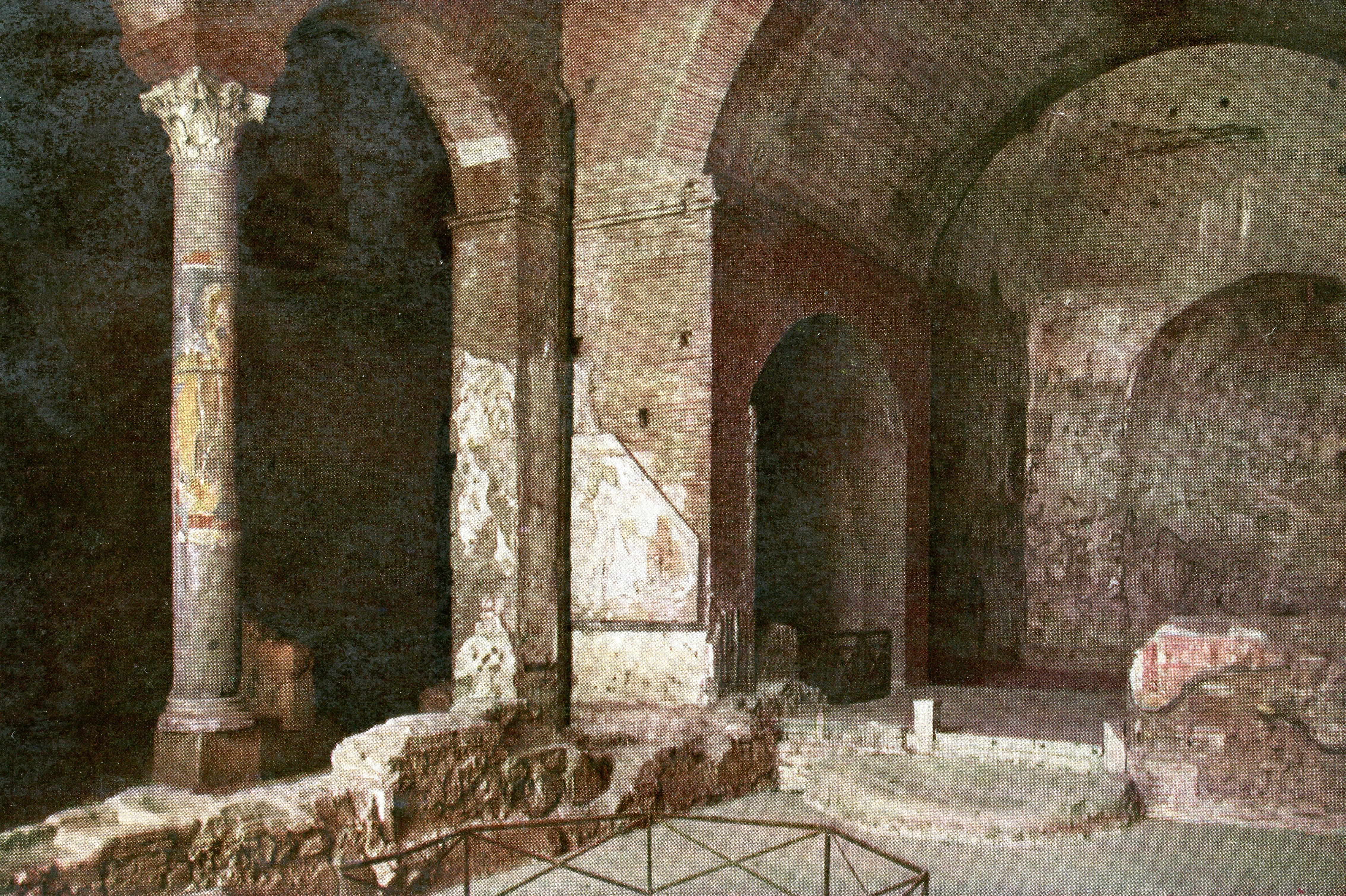 Interior of the Santa Maria Antiqua (Rome): presbytery with apse and part of the left chapel